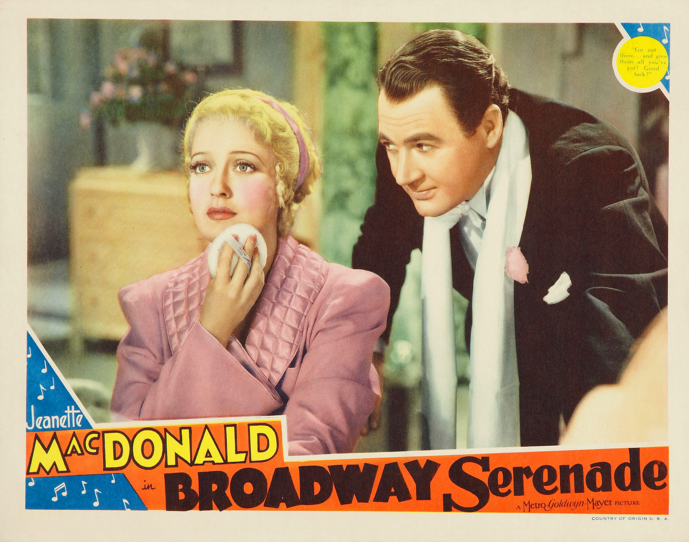 Lobby card for the 1939 film Broadway Serenade.